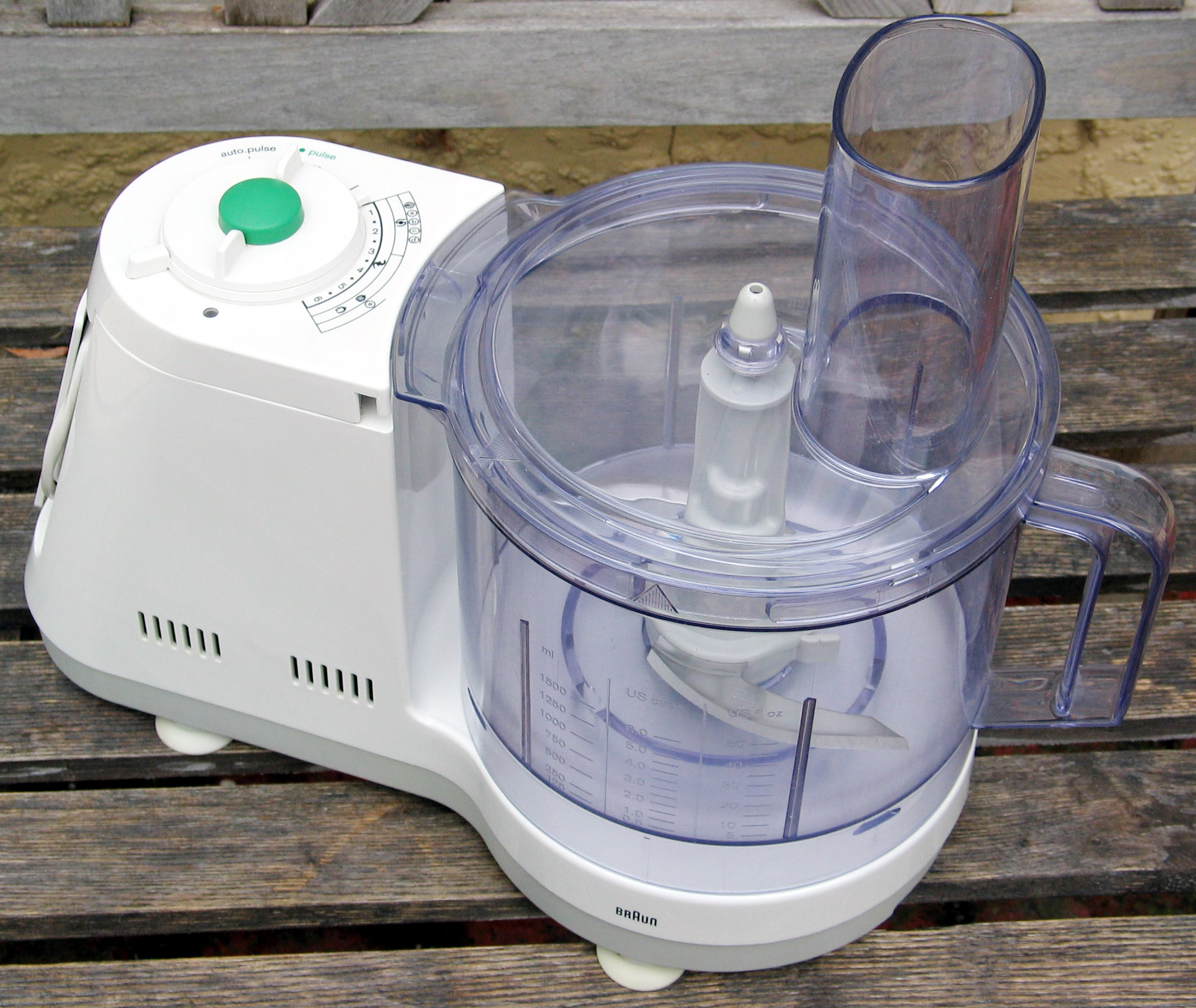 This is the food processor part of a Braun Multisystem K1000 food processor.